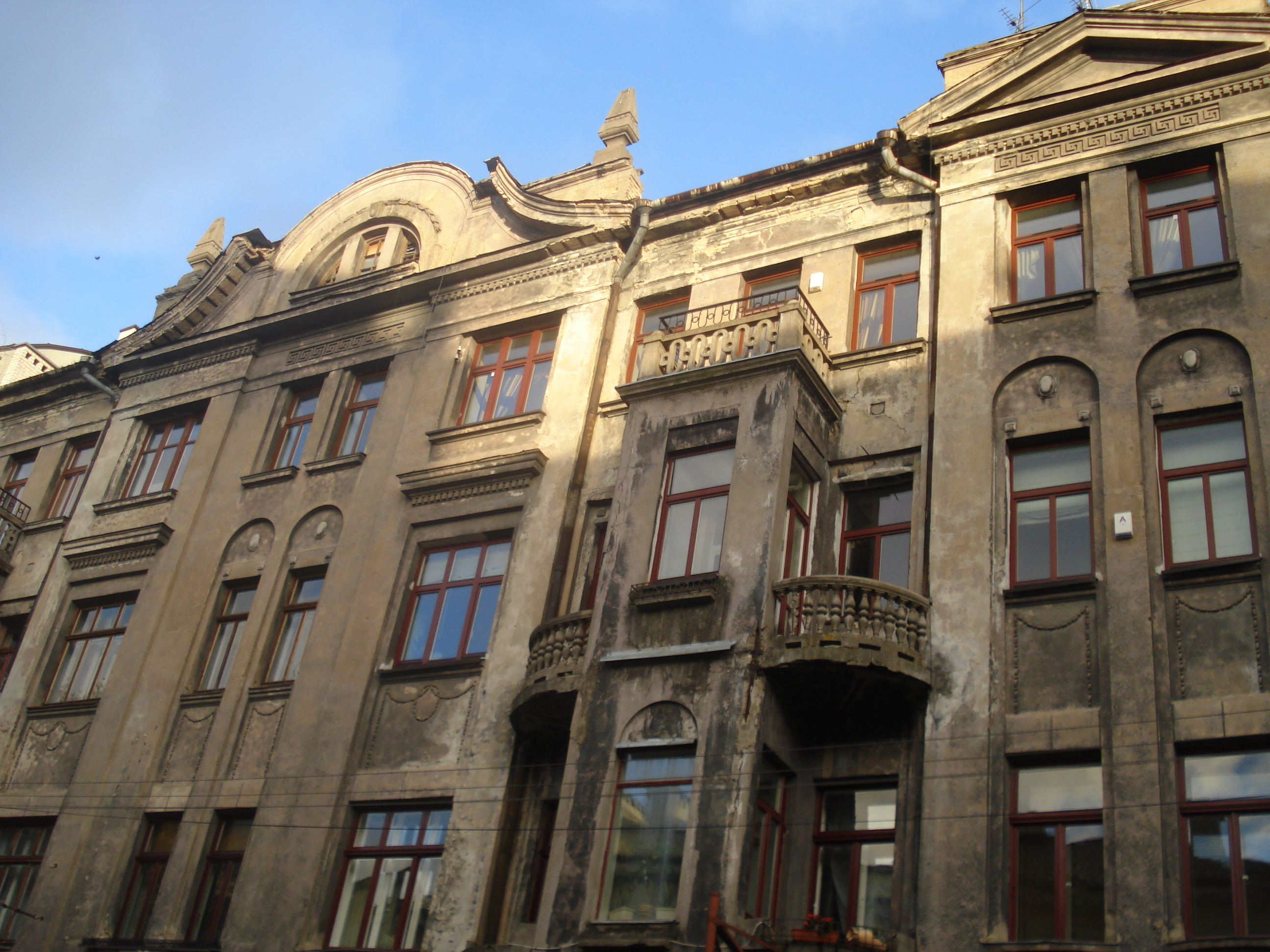 House of M. Dajon in Vilnius (Teatro g. 9). Build 1913. Architect Tadeusz Maria Rostworowski